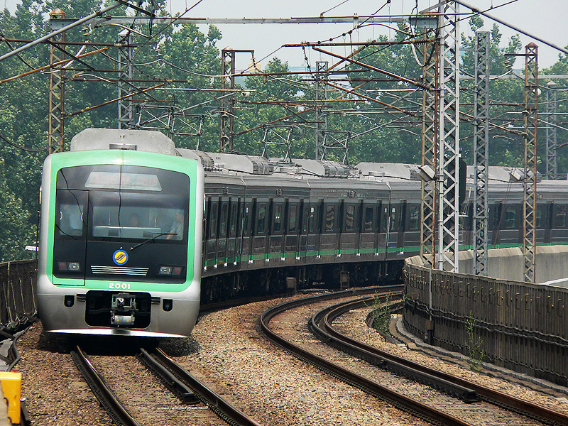 Seoul Subway Line2 VVVF Train